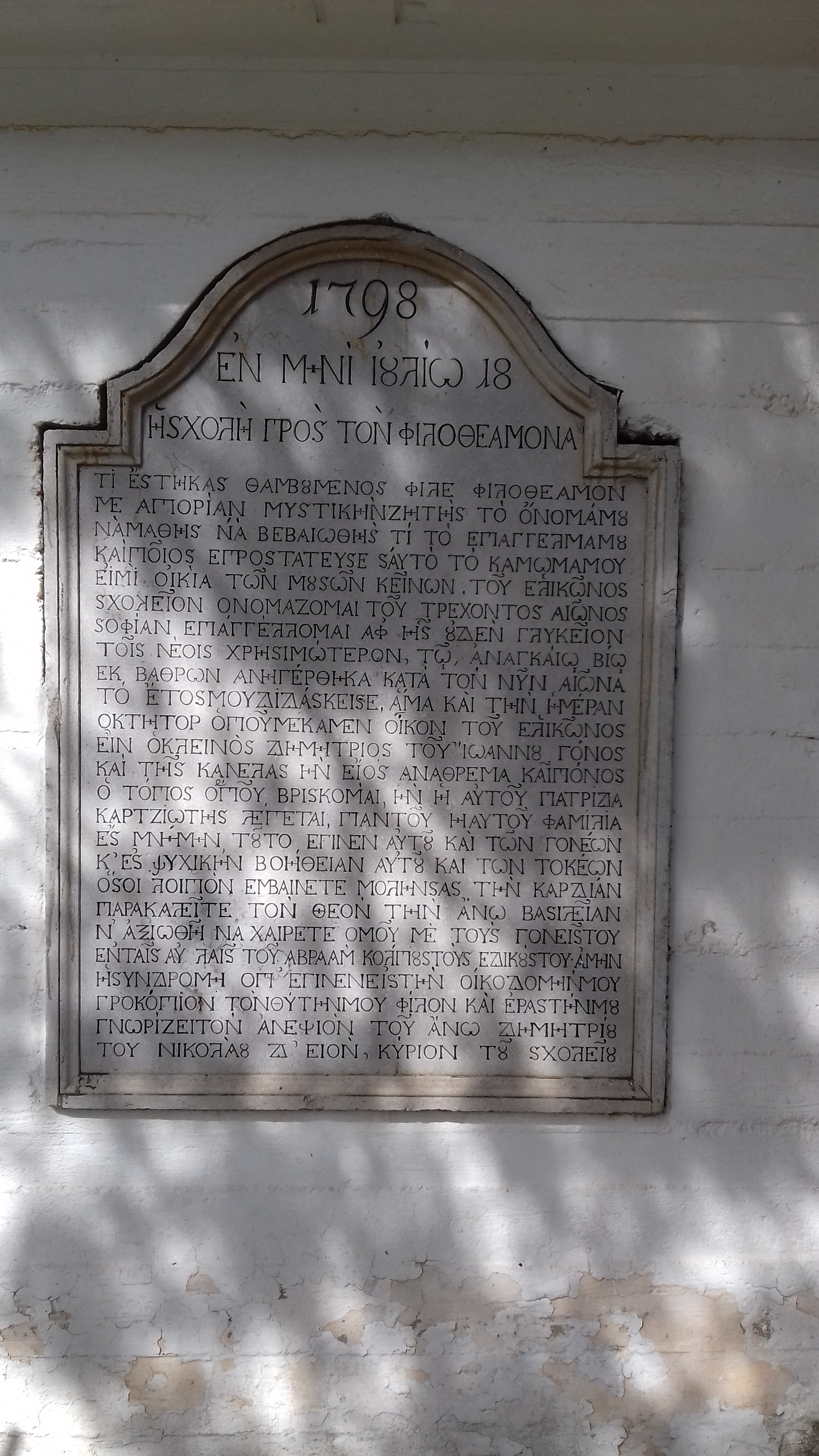 Plaque at Karitsioti school, Agios Ioannis Arcadia, Greece